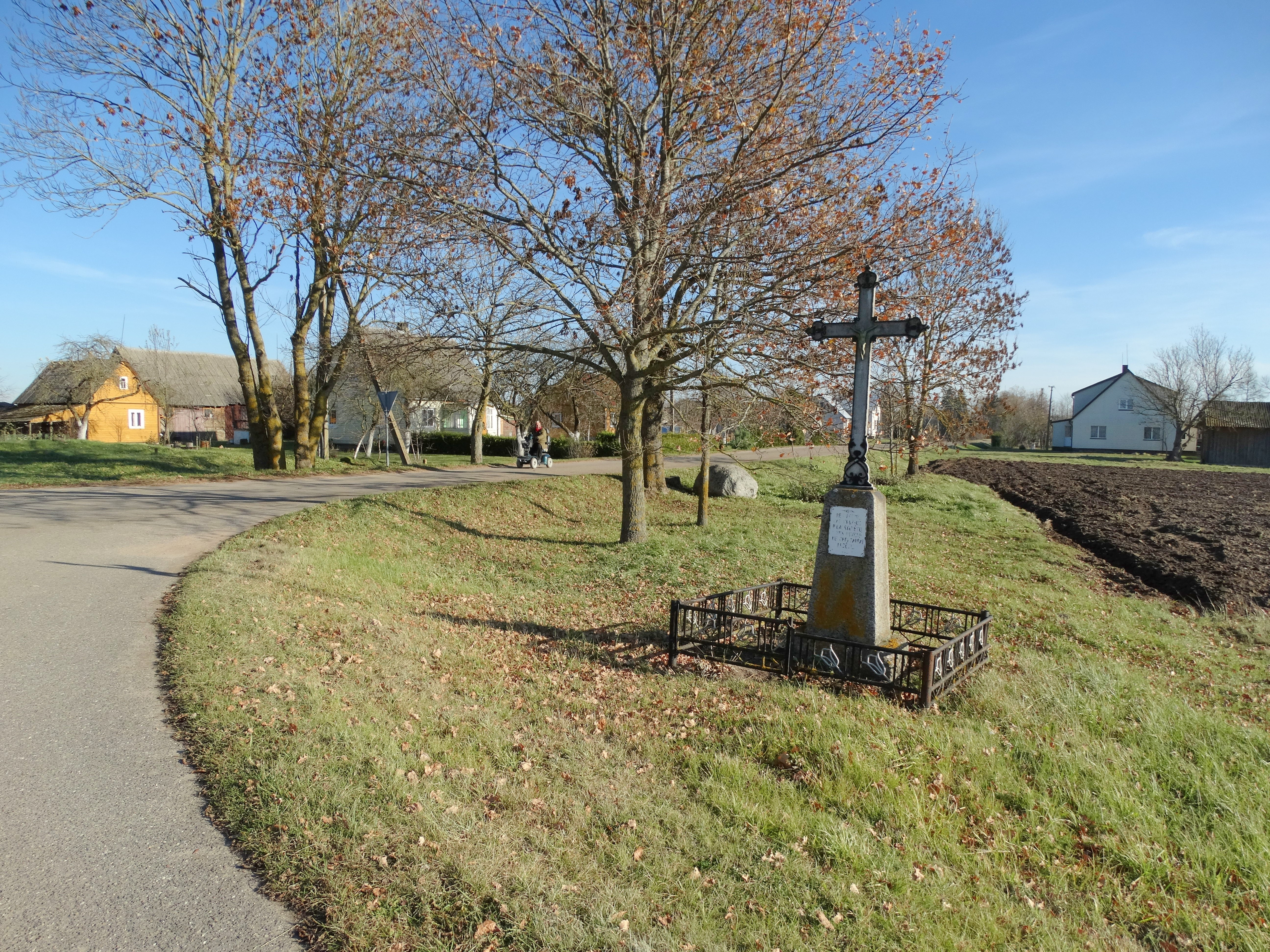 Sodeliai, Panevėžys district, Lithuania